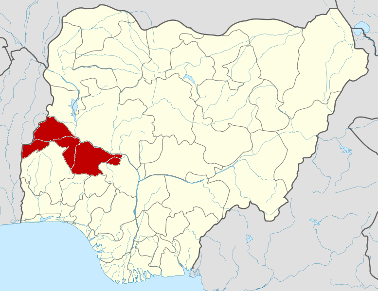 Map locator of Nigeria.